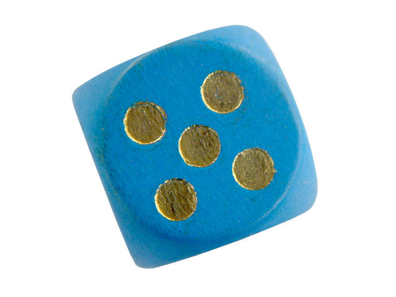 wood blue dice from board game